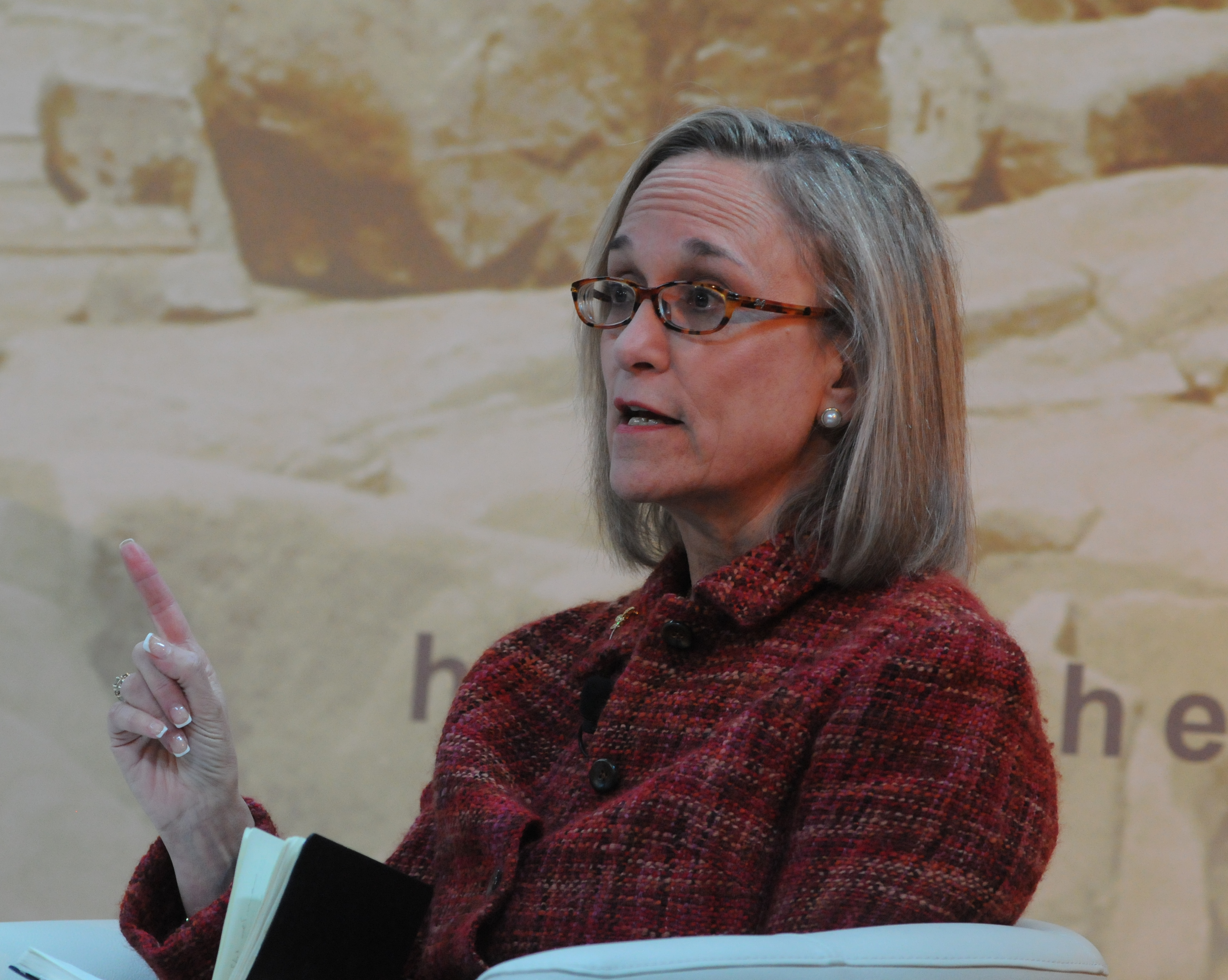 Carla Robbins speaks on a panel entitled, "American Global Leadership After the Election" at the 2012 Halifax International Security Forum.